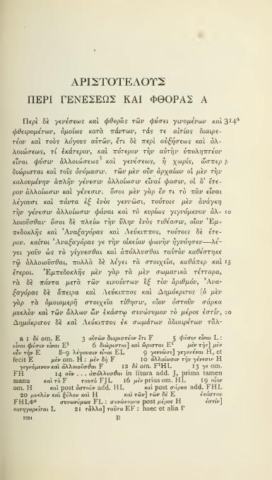 page from the book "peri geneseos kai fthoras"